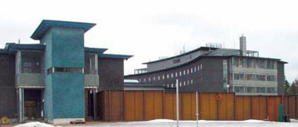 Vantaa Prison, Finland